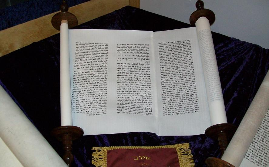 Scroll of Book of Job, in Hebrew